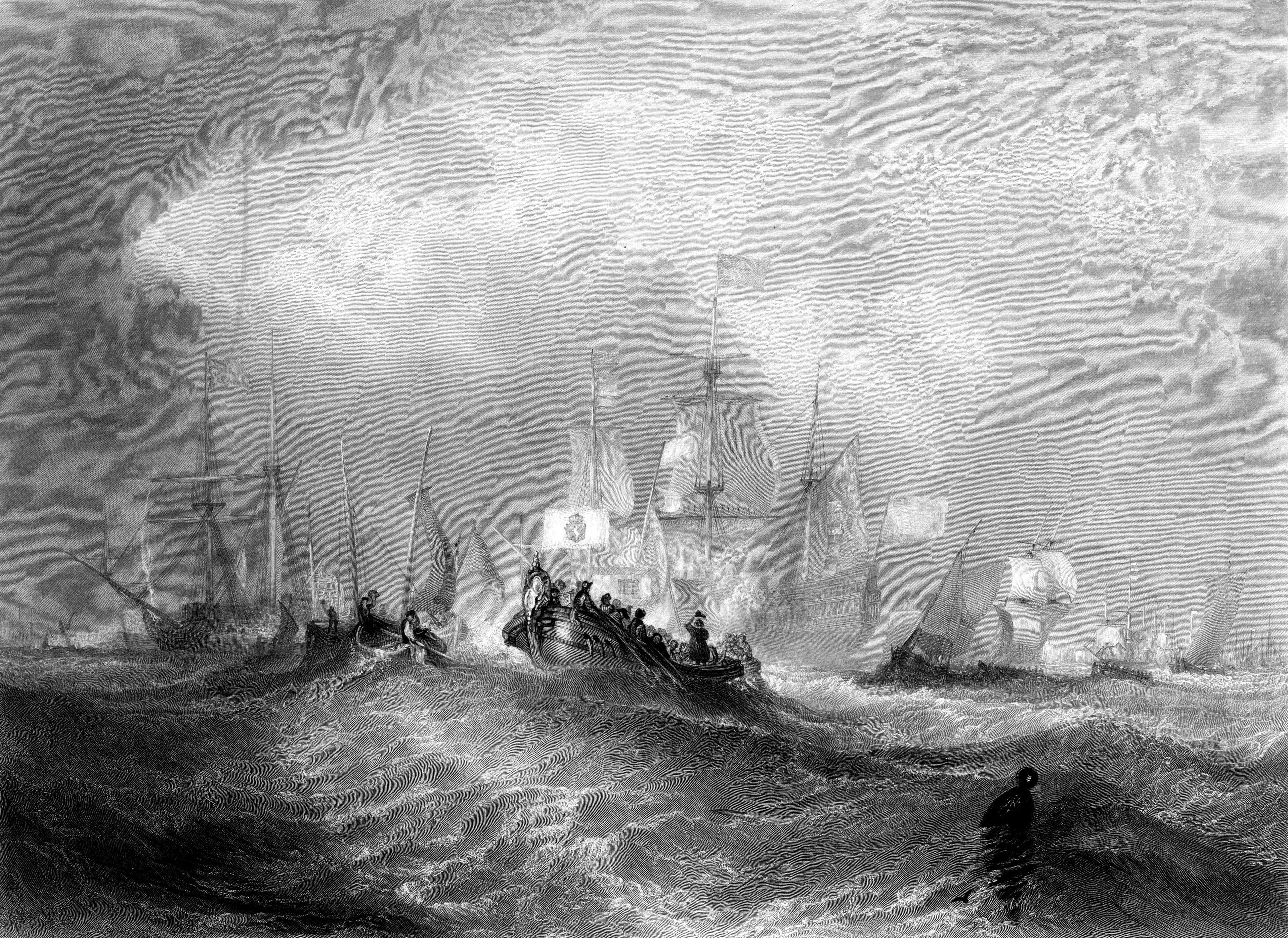 Prince of Orange Landing at Torbay, engraving by William Miller after J M W Turner (Rawlinson 739), published in The Art Journal 1852 (New Series Volume IV). George Virtue, London, 1852